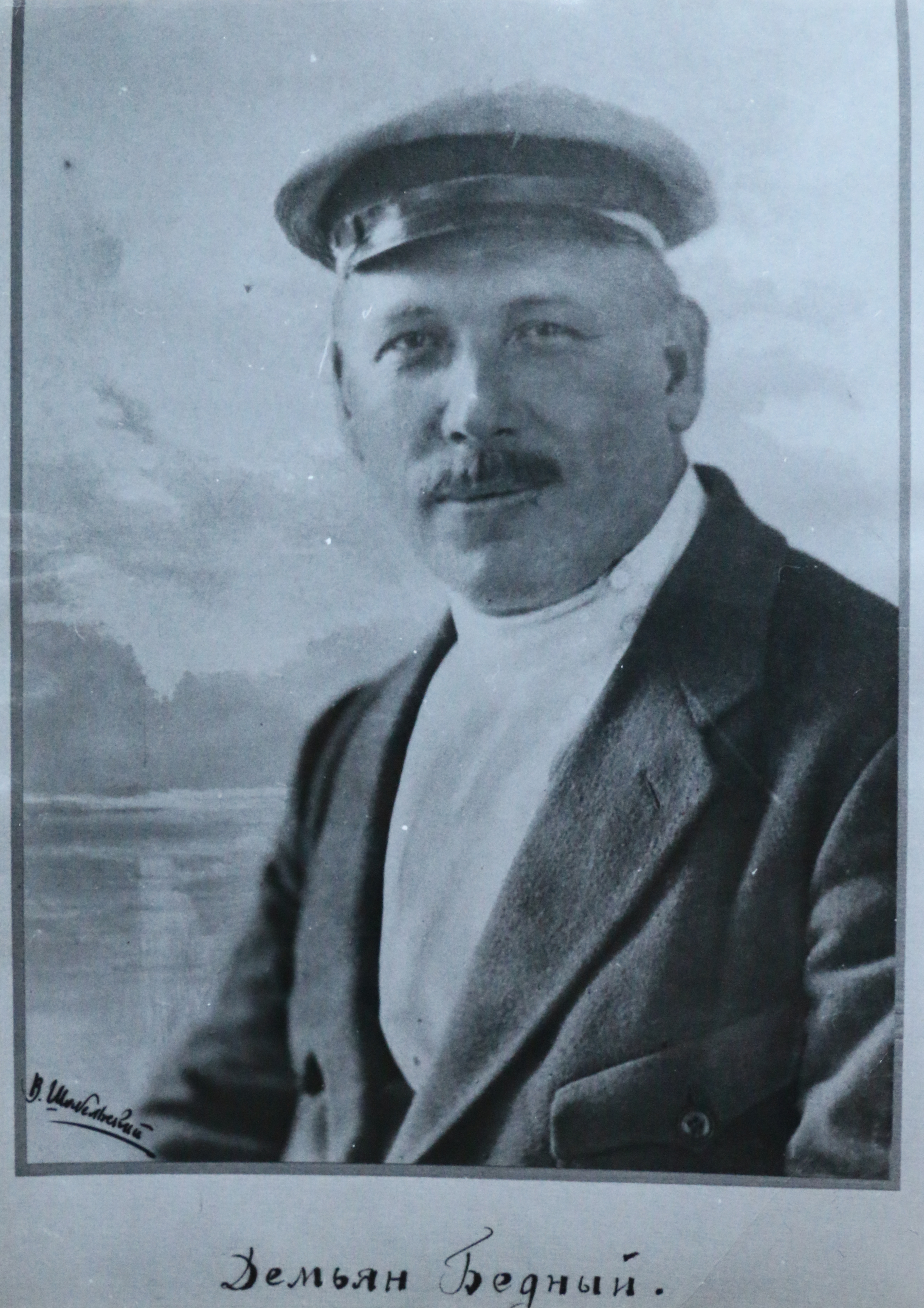 Boris Souvarine Papers - Soviet Russia Photos Notes: Portrait of Russian politician, poet and satirist Demian Bedny ("Demian the Poor") (1883-1945). Born in Ukraine to a poor family, Yefim Alekseevich Pridvorov (his original name) became involved in politics during his studies in Saint-Petersburg, in the revolutionary years around 1905. In the early 1910s, he began a private correspondence with Lenin and developed a friendship with him. A supporter of the Bolsheviks during the Revolution, he was a very popular writer who was strongly supported by the Soviet regime during the 1920-1930s. The Boris Souvarine Papers' collection holds another photo of Demian Bedny, with Anatoly Lunacharsky: "Portrait of Anatoly Lunacharsky and Demian Bedny (...)". The document is a photographic reproduction of the photo made by V. Shabel'skii. Description: 1 photograph. Black and white ; 13 x 18.5 cm.